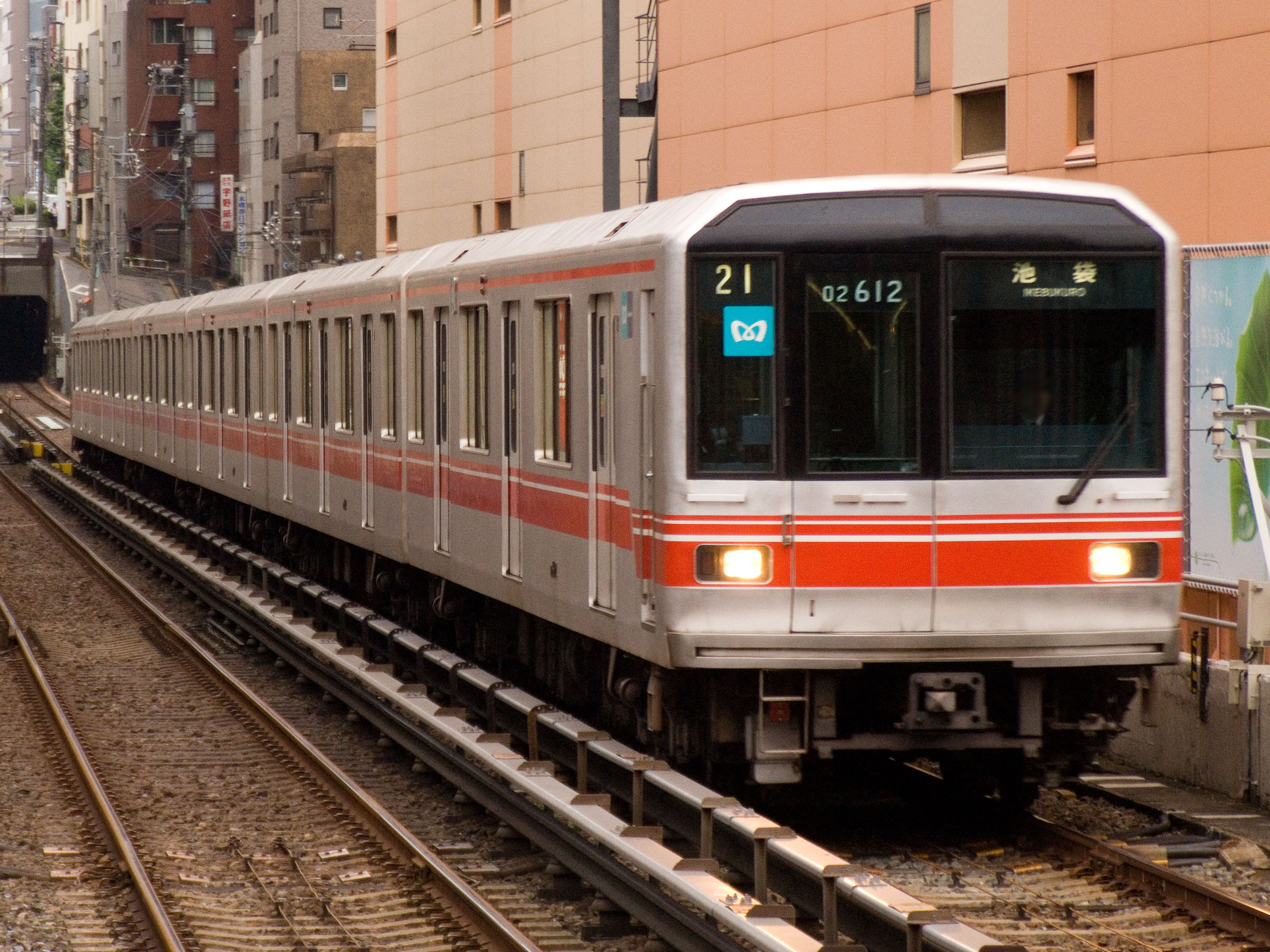 Teito Rapid Transit Authority series 02 for Tokyo Metro Marunouchi Line